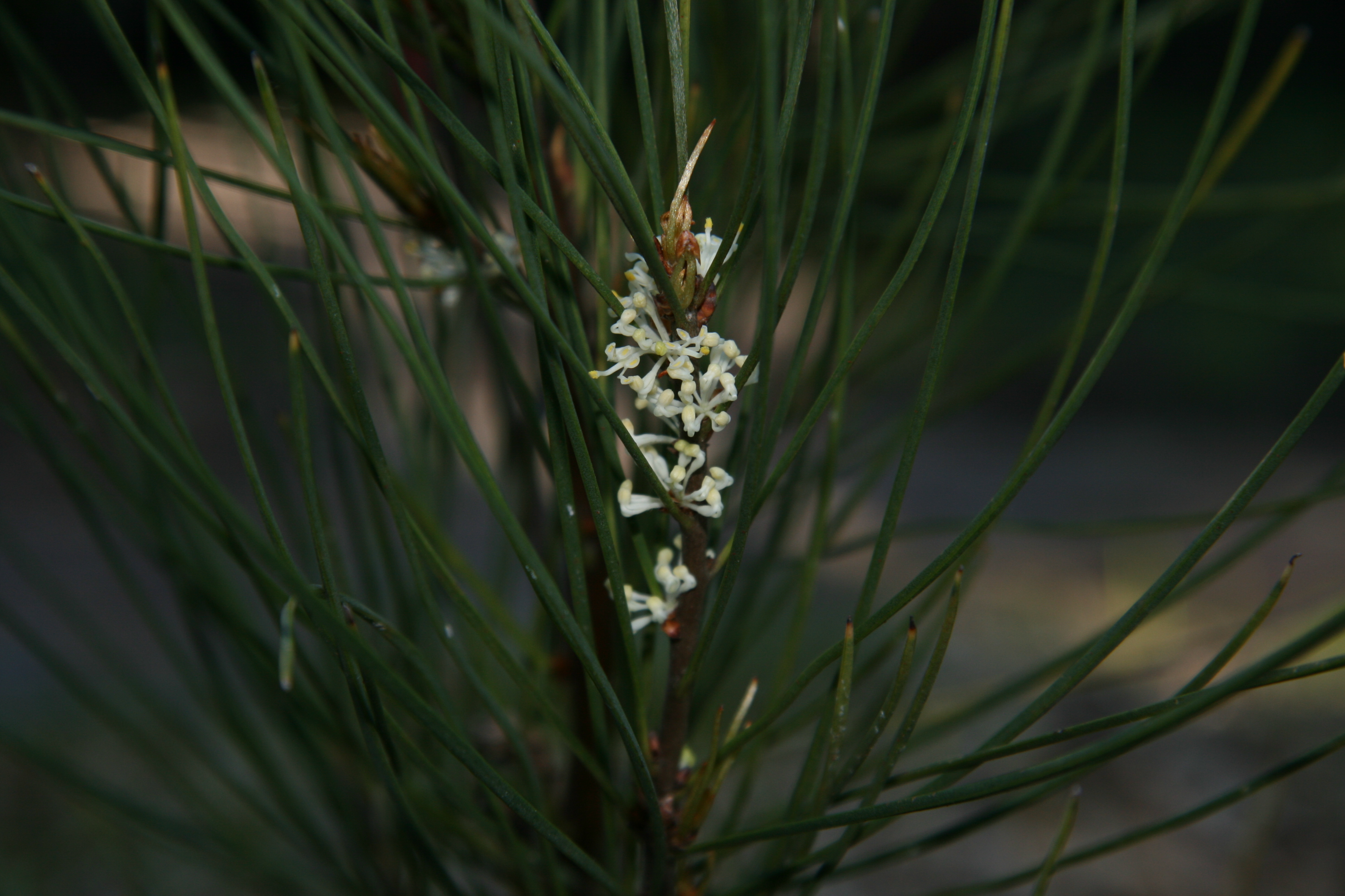 Hakea dohertyi in flower, cult. Sydney